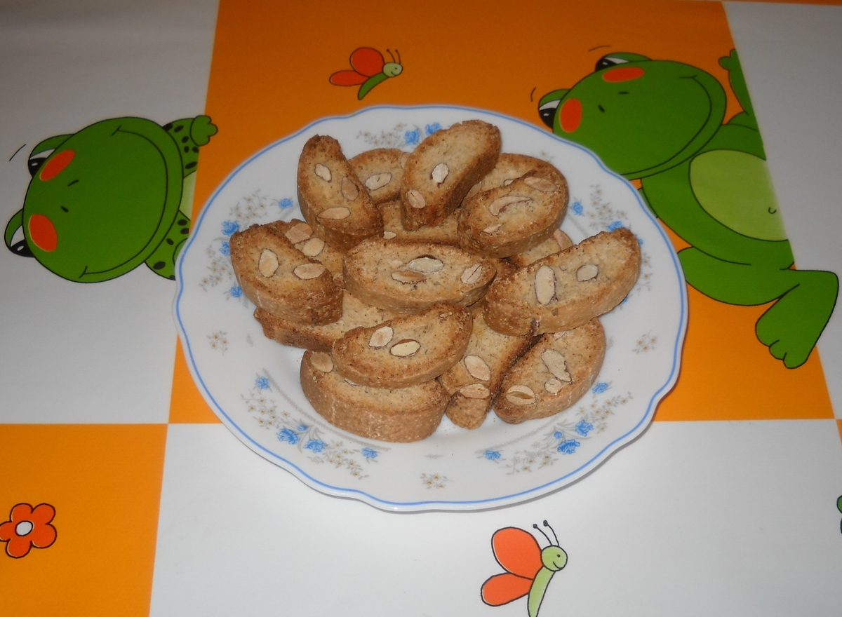 Carquinyolis d'Arenys (some typical catalan biscuits)